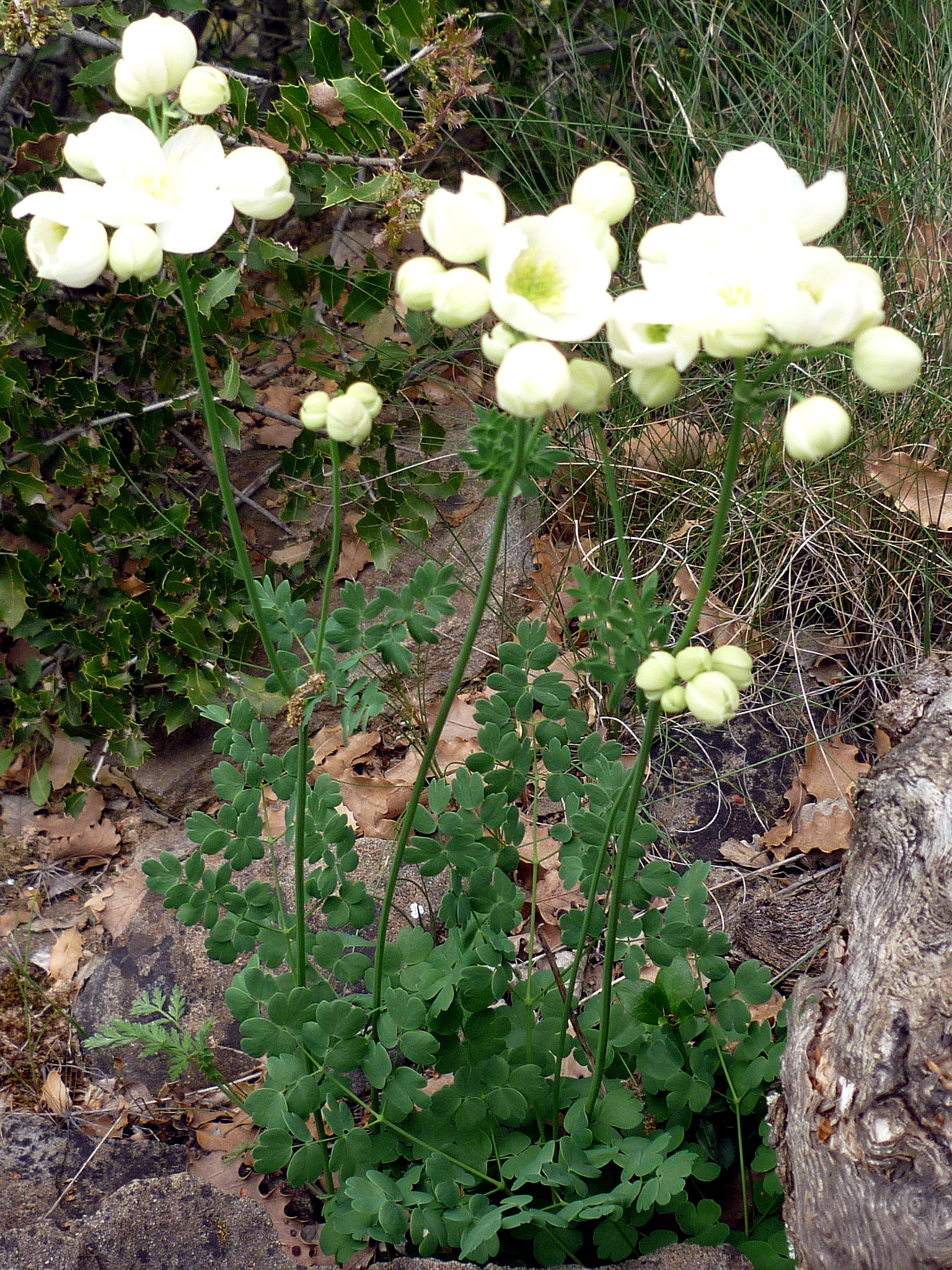 Thalictrum tuberosum. In Rasa de Figuerola de Torà (Segarra - Catalunya). To 580 m. altitude.